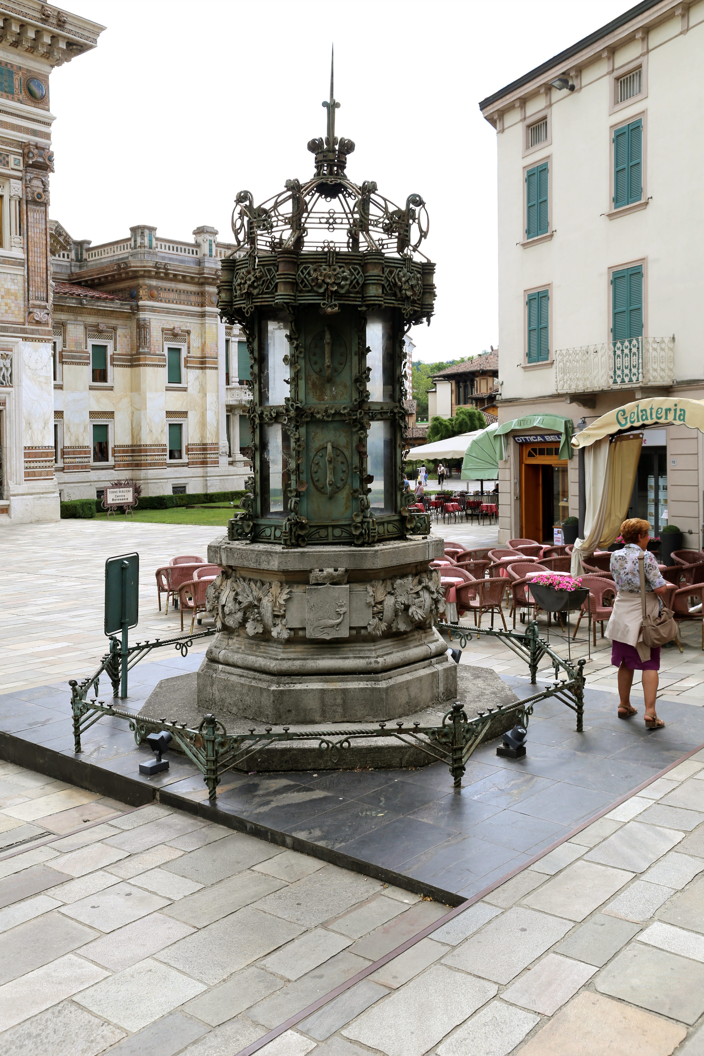 Buildings in Salsomaggiore Terme